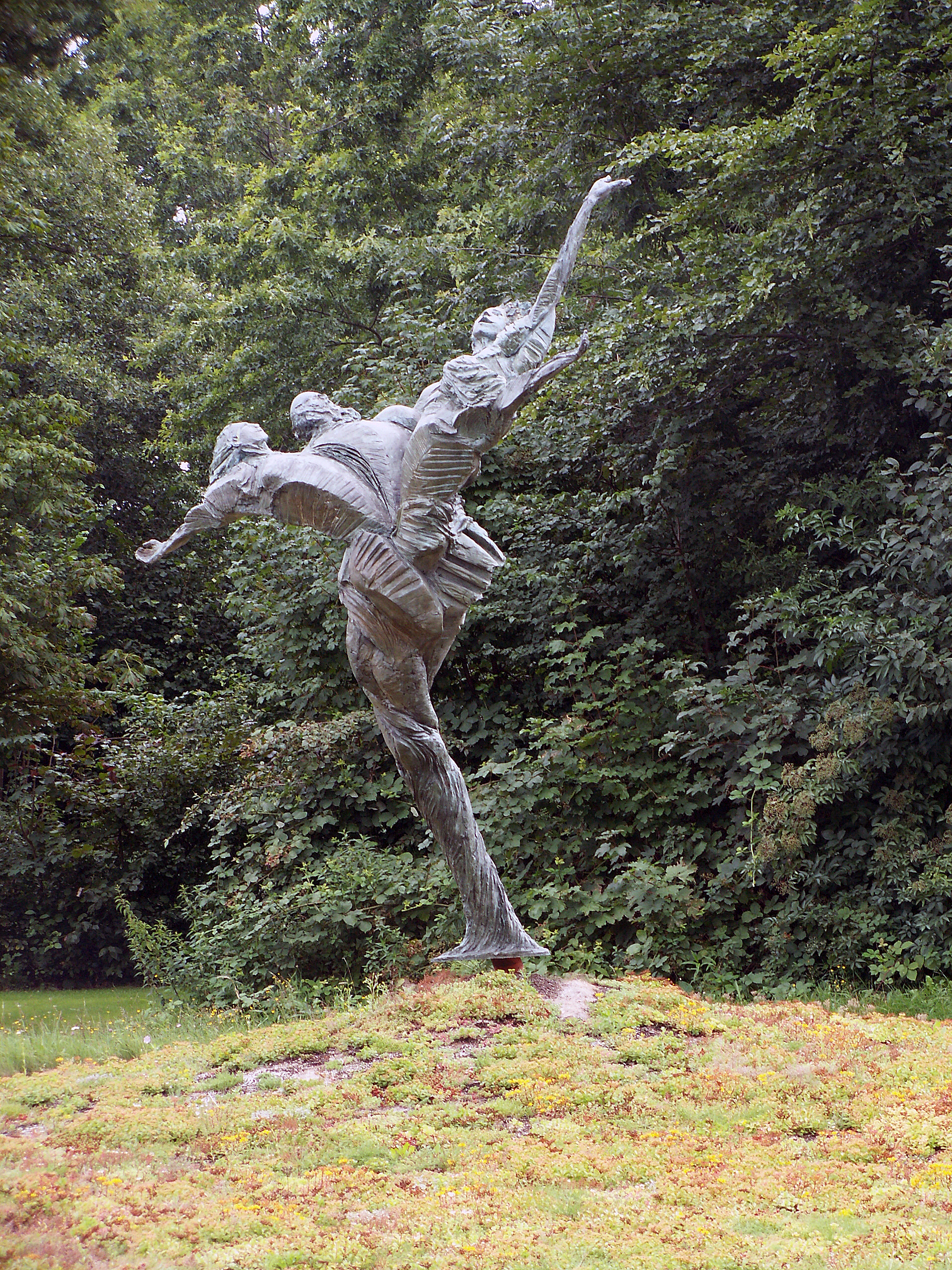 Bronze sculpture "Quatro Felici Amici" by Swedish sculptor Richard Brixel. Rondabout Middenweg, Leusden, Holland.